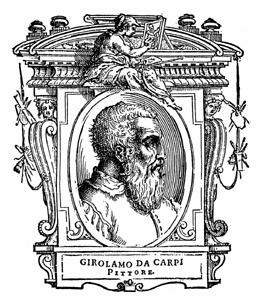 Illustratio from "Le Vite" by Giorgio Vasari, edition of 1568. For the artist portrayed see filename